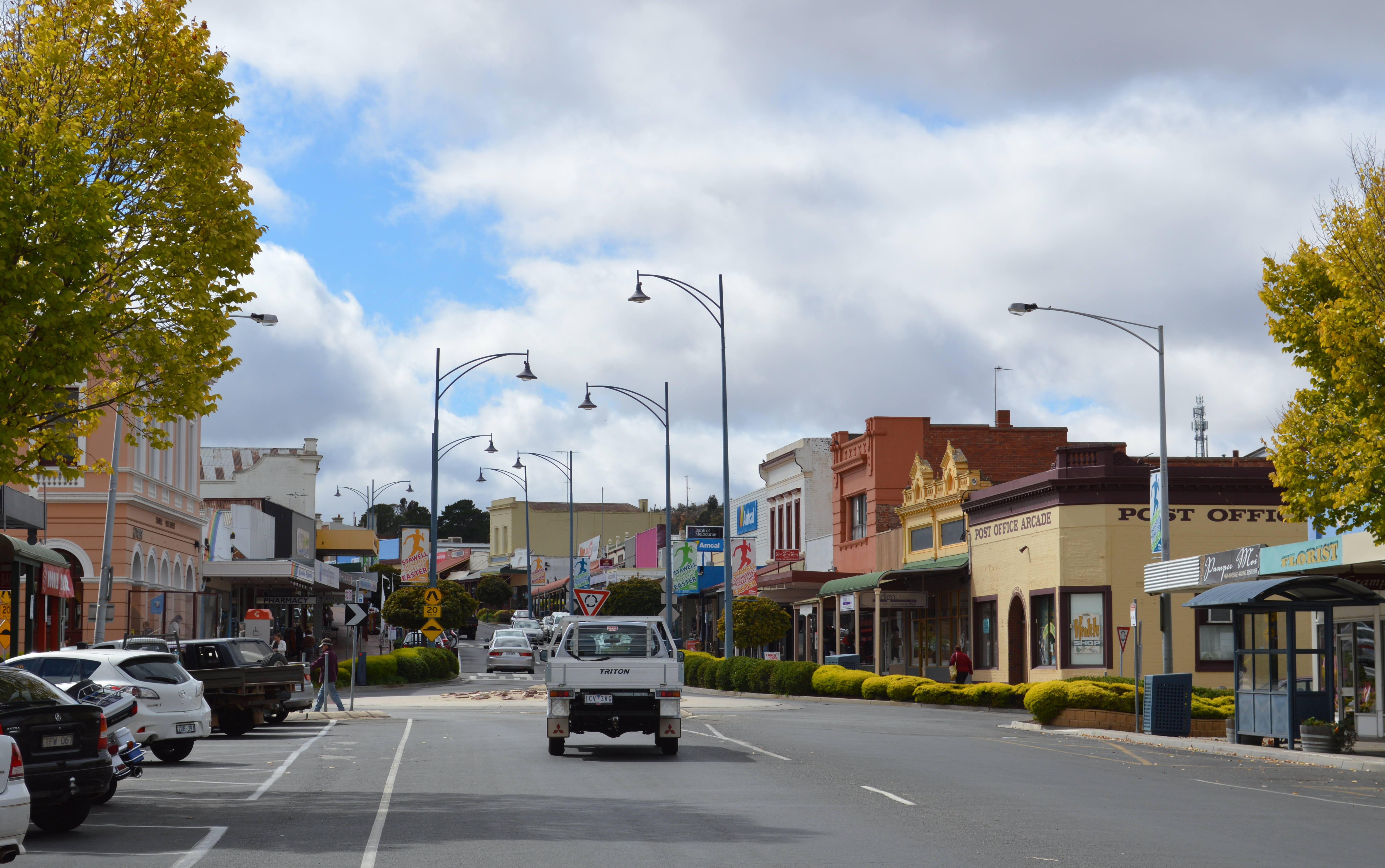 Main Street, Stawell, Victoria